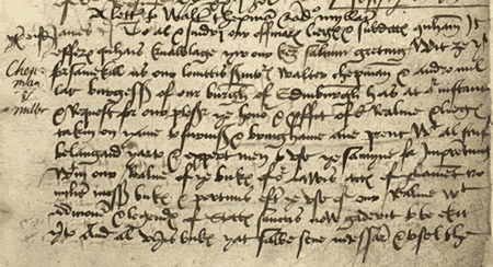 James the Fourth's proclamation establishing the printing press of Walter Chepman and Androw Myllar. Register of the Privy Seal of Scotland, 15 September 1507.